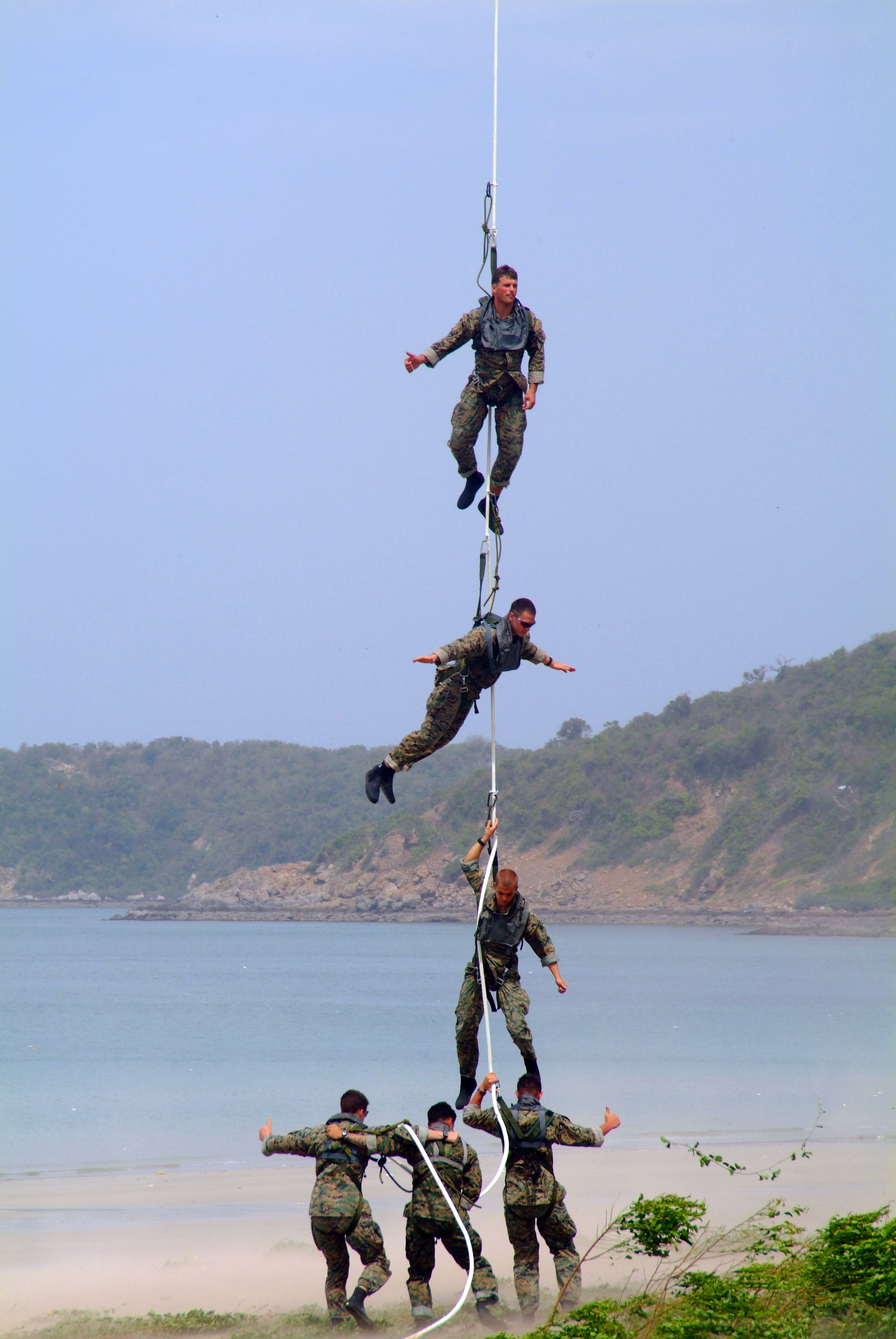 Hat Yao, Thailand (May 15, 2006) - Marines assigned to the 3rd Reconnaissance Battalion conduct Special Purpose Insert and Extraction (SPIE) evolutions on the beach in Thailand while participating in the 25th anniversary of the annual U.S./Thai exercise Cobra Gold 2006. Cobra Gold is a combined annual joint training exercise aimed at developing interoperability, strengthening relationships between services and developing cross-cultural understanding among participating nations. U.S. Navy photo by Journalist 2nd Class Brian P. Biller (RELEASED)